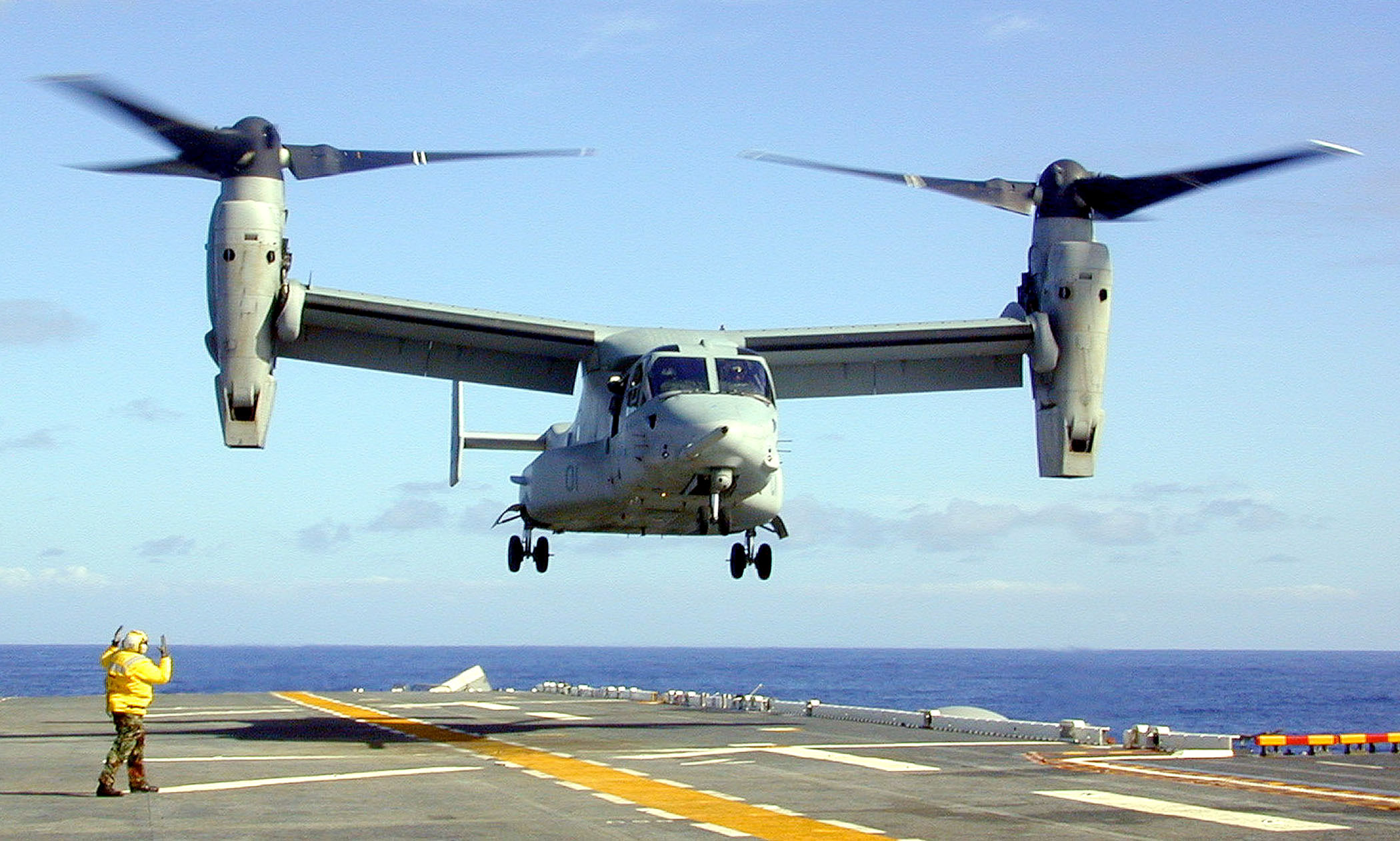 Petty Officer 3rd Class Jerry Lowe directs an MV-22 Osprey in for landing on the flight deck of the USS Essex (LHD 2) off the coast of Southern California on Feb. 26, 2000. The Osprey, with its unique tilt rotor design, is going through operational testing designed to evaluate the operational effectiveness and stability of the Osprey for service with the Marine Corps and Air Force. The Osprey may eventually replace the CH-46 Sea Knight and CH-53D Sea Stallion helicopters. Lowe, of Demopolis, Ala., is a Navy aviation boatswain's mate.